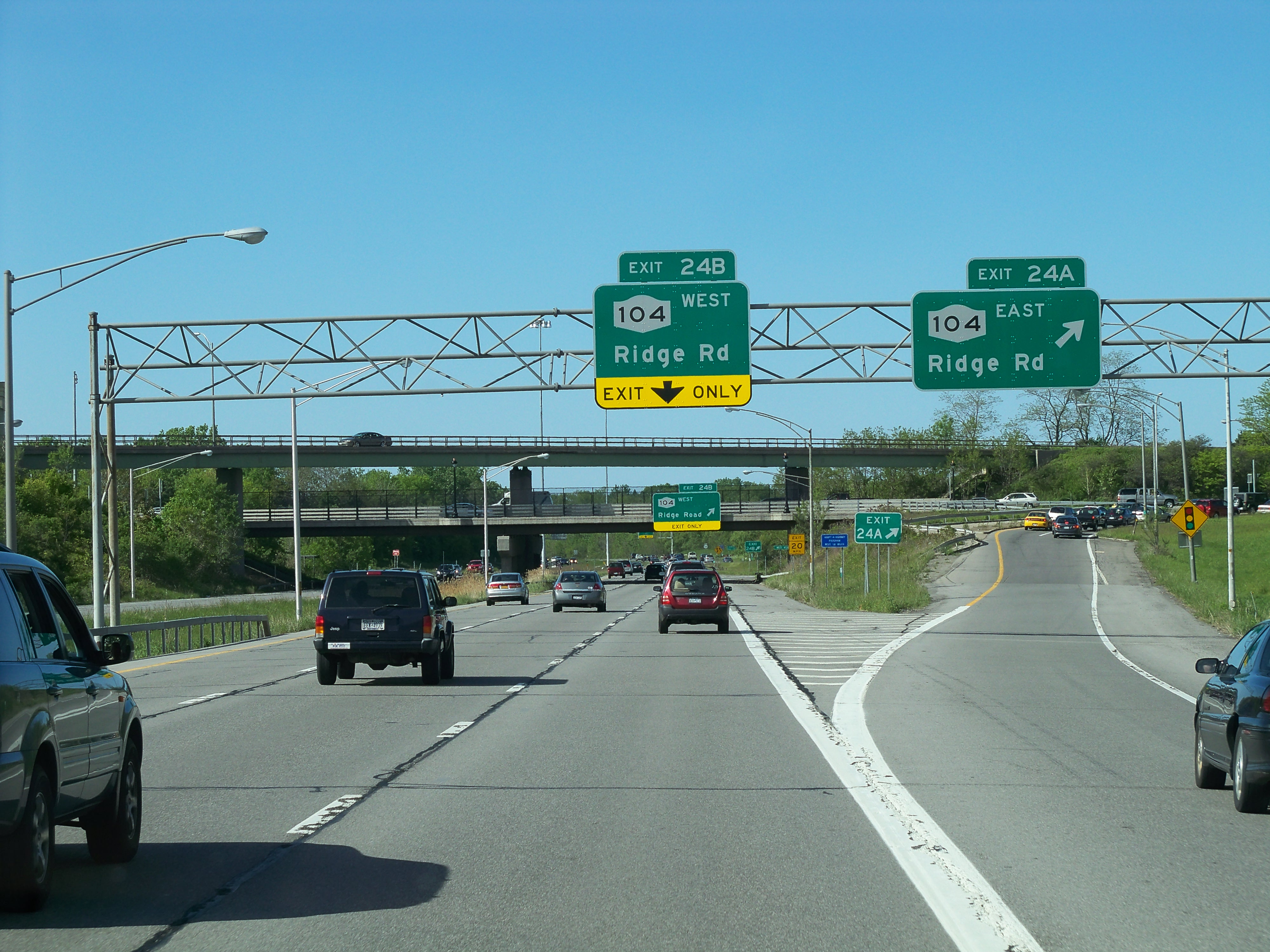 Northbound on New York State Route 390 at New York State Route 104 in Greece. This junction was the freeway's northern terminus for roughly a decade during the 1970s and 1980s.